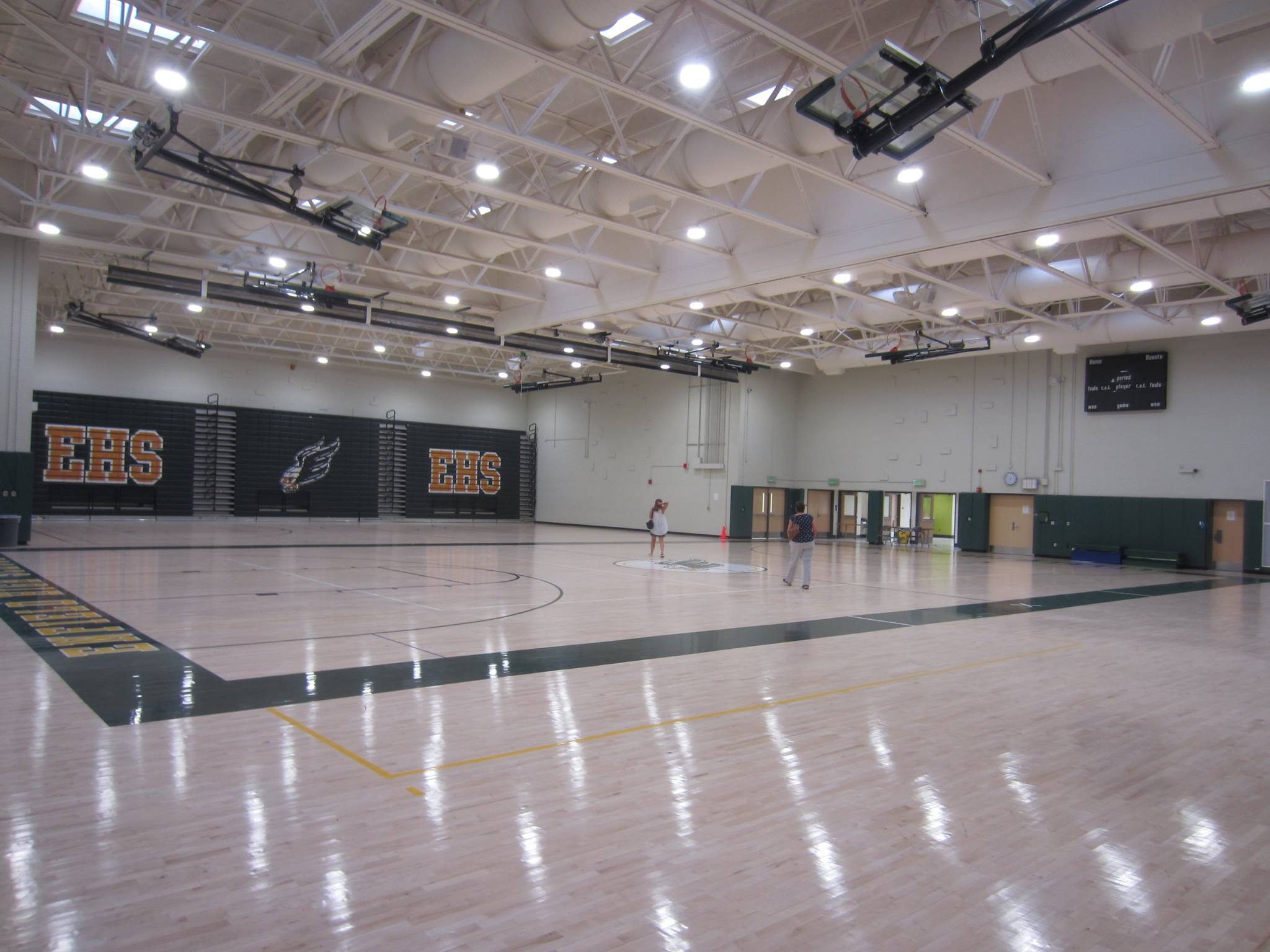 Enfield High School New Gym